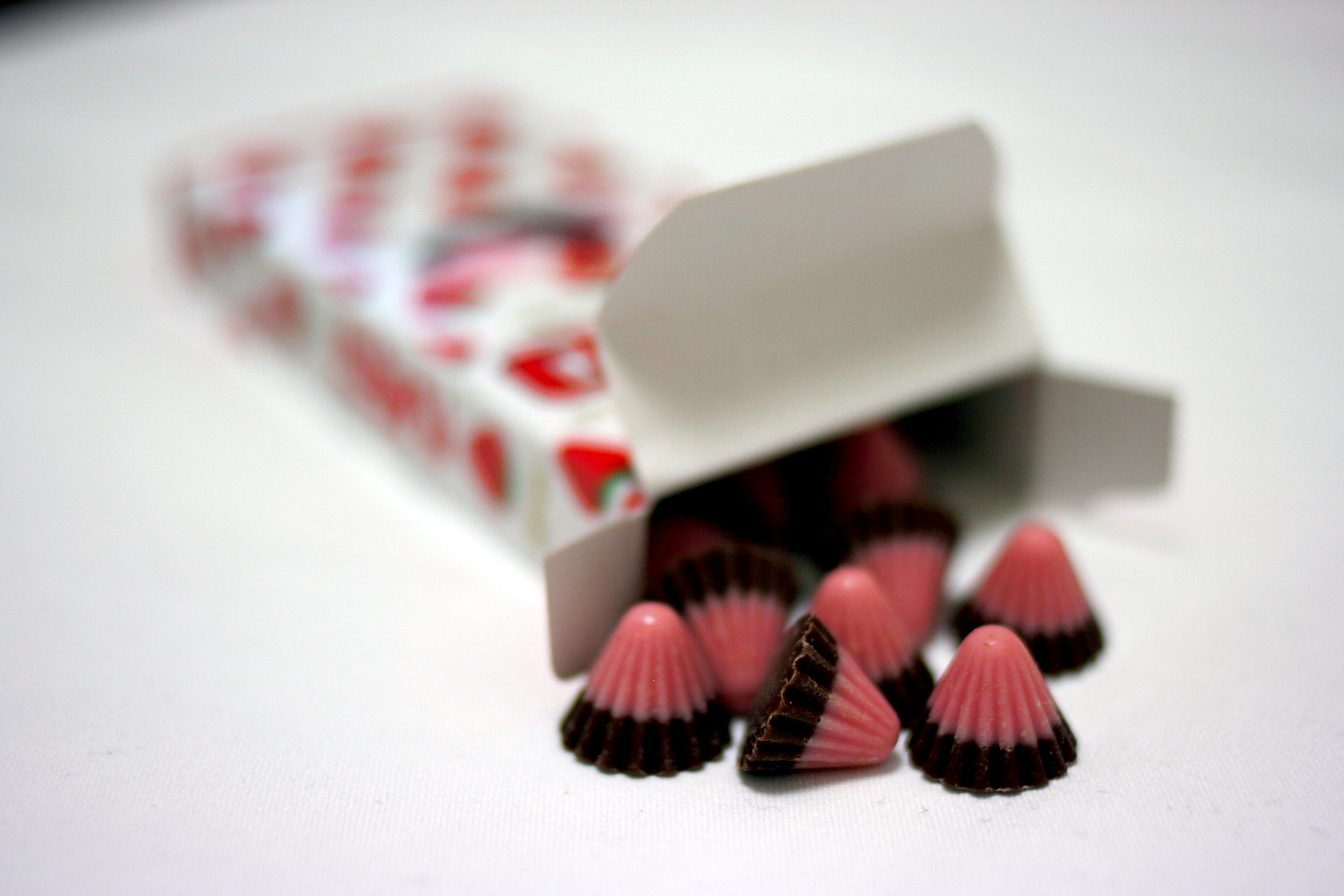 thisisaworkingclassglamourtypeofthing. アポロ